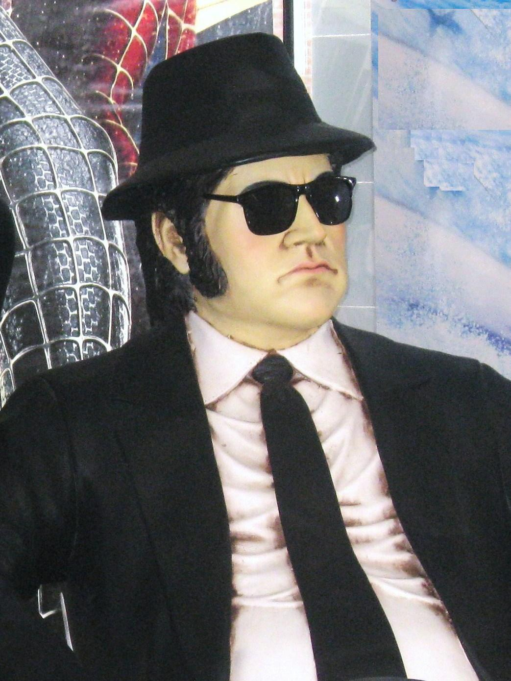 A vision of Jake Blues (John Belushi), The Blues Brothers.